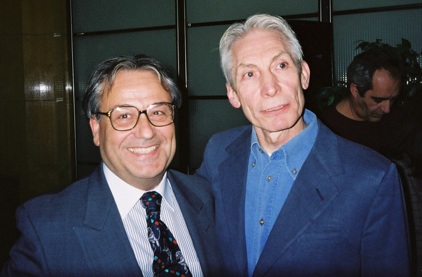 Delfín Fernández Martínez (Los Salvajes) with Charlie Watts (Rolling Stones) during Charlie's press conference in Hotel Habana (Barcelona).